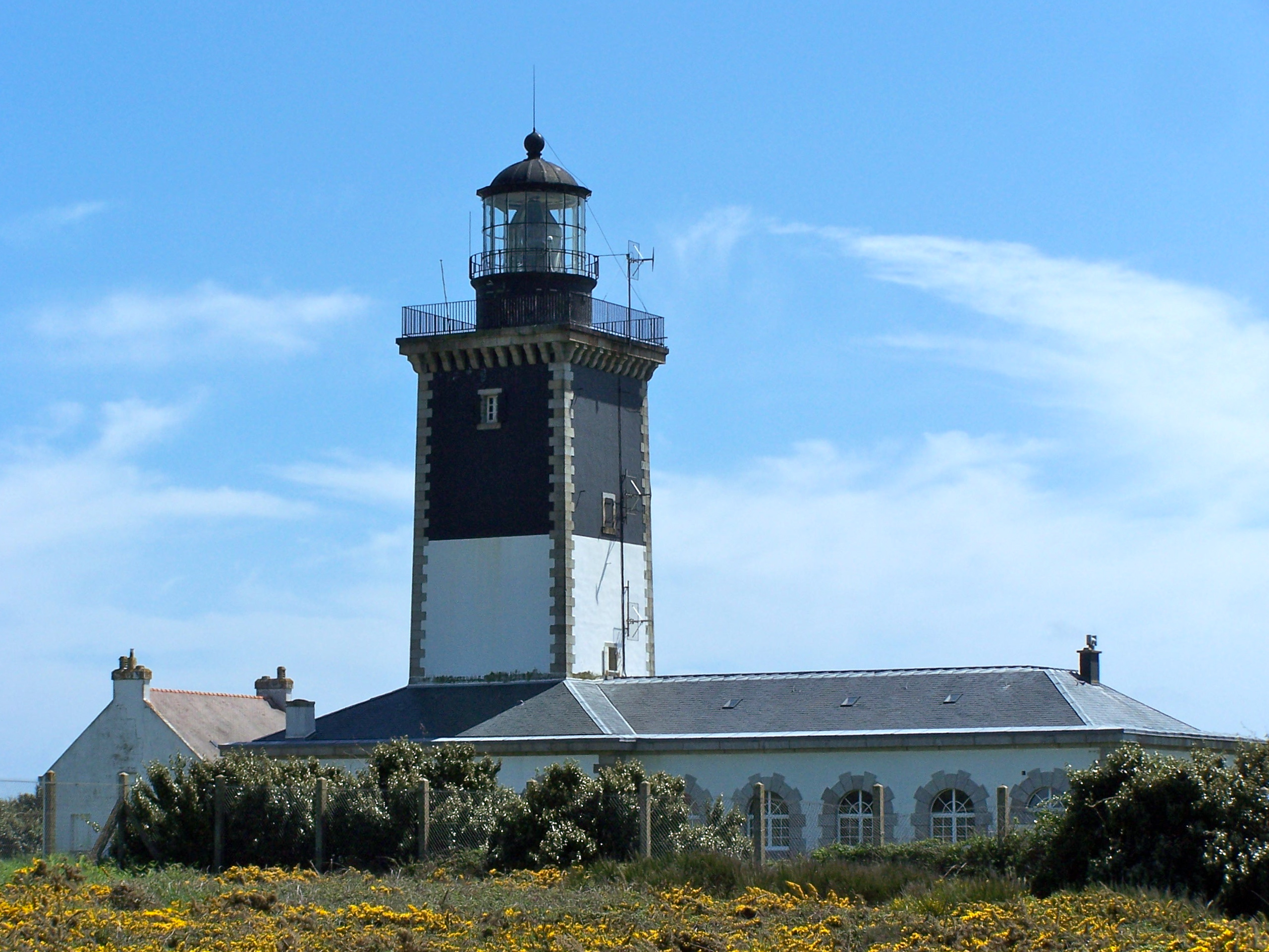 Phare de Pen Men à la pointe homonyme de l'île de Groix